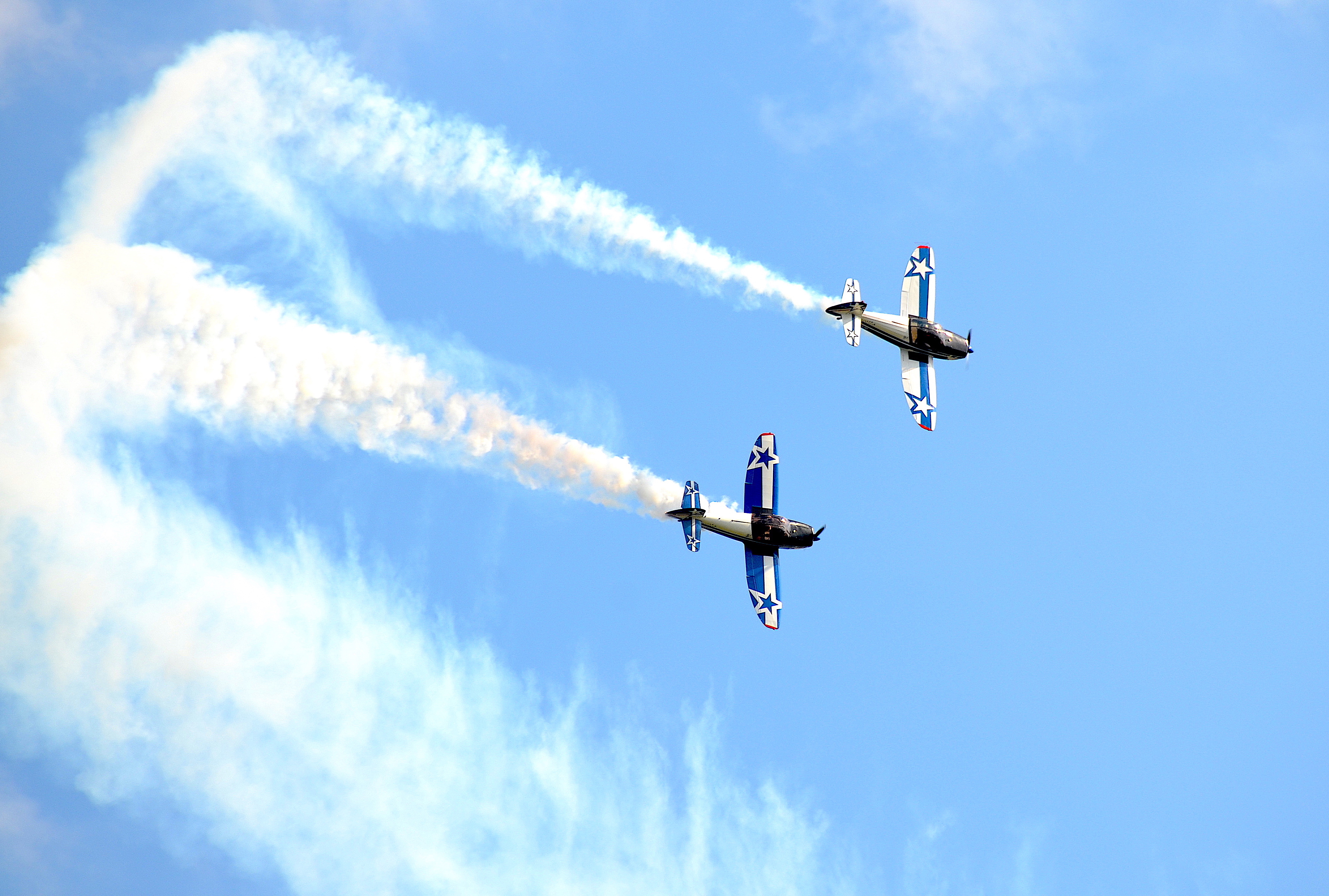 Aerobatics maneuver with Mudry CAP-10B at Degerfeld Airfield